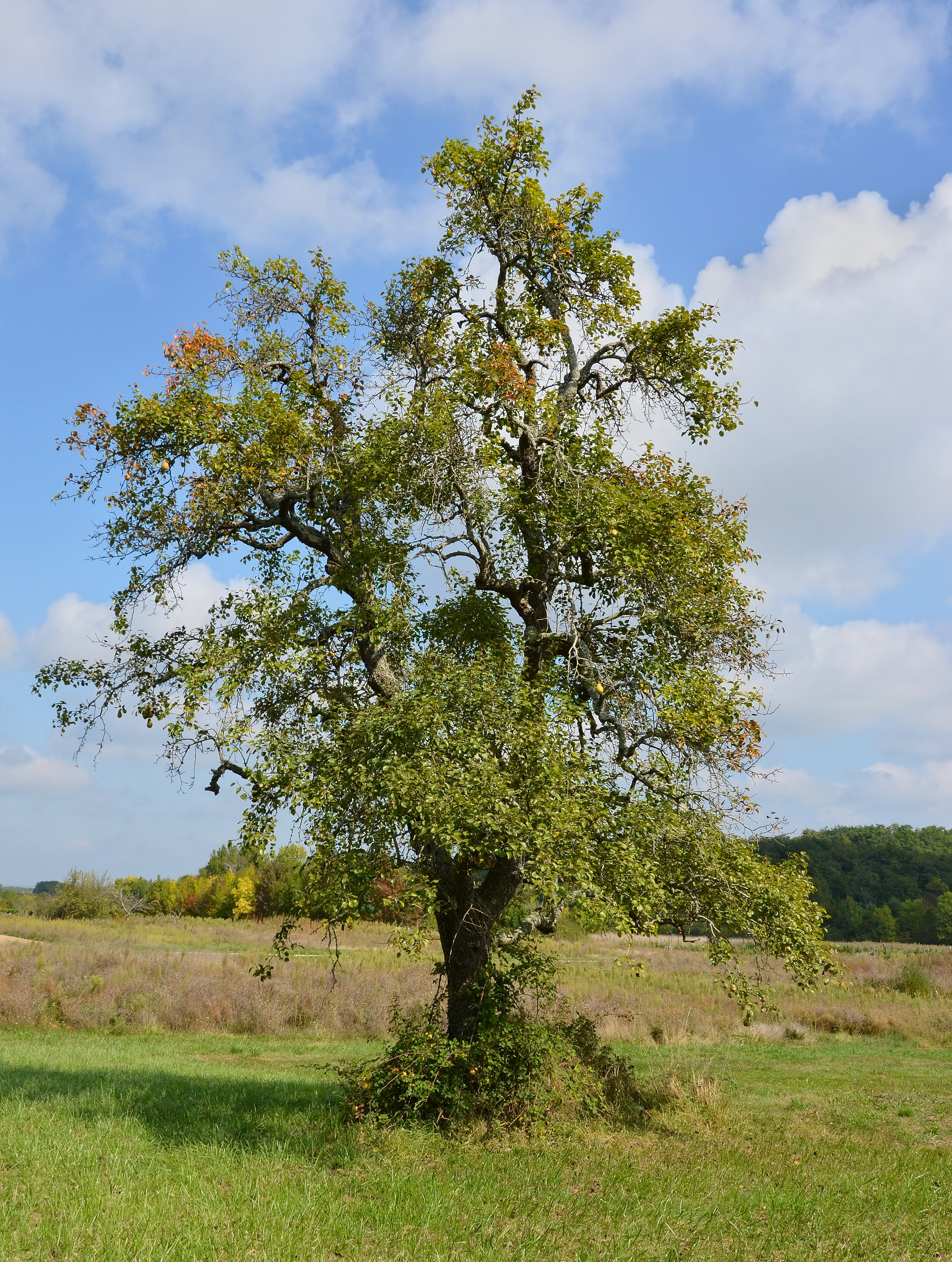 Common Pear (Pyrus communis) in the country, Cherves-Richemont, Charente, France.